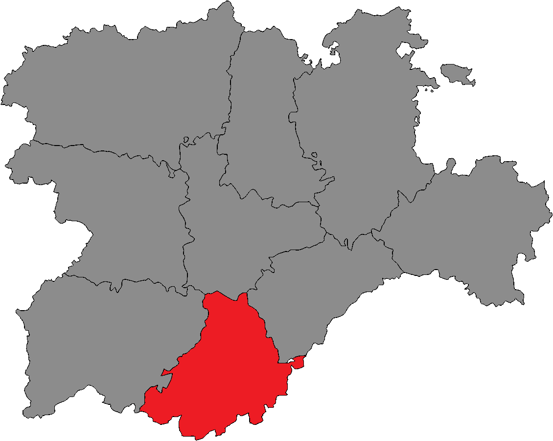 Cortes of Castile and León district of Ávila.